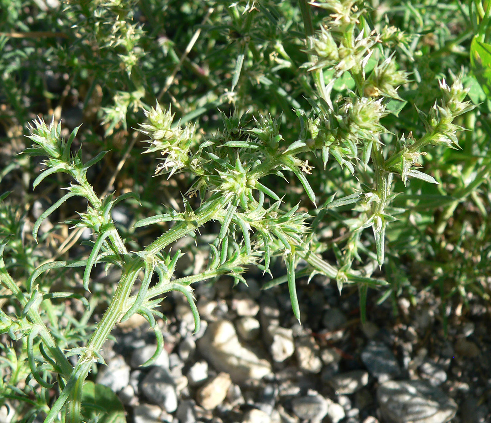 Kali tragus (Syn. Salsola tragus) near the junction of 157 and 158, Kyle Canyon, Spring Mountains, southern Nevada (elev. about 2100 m)